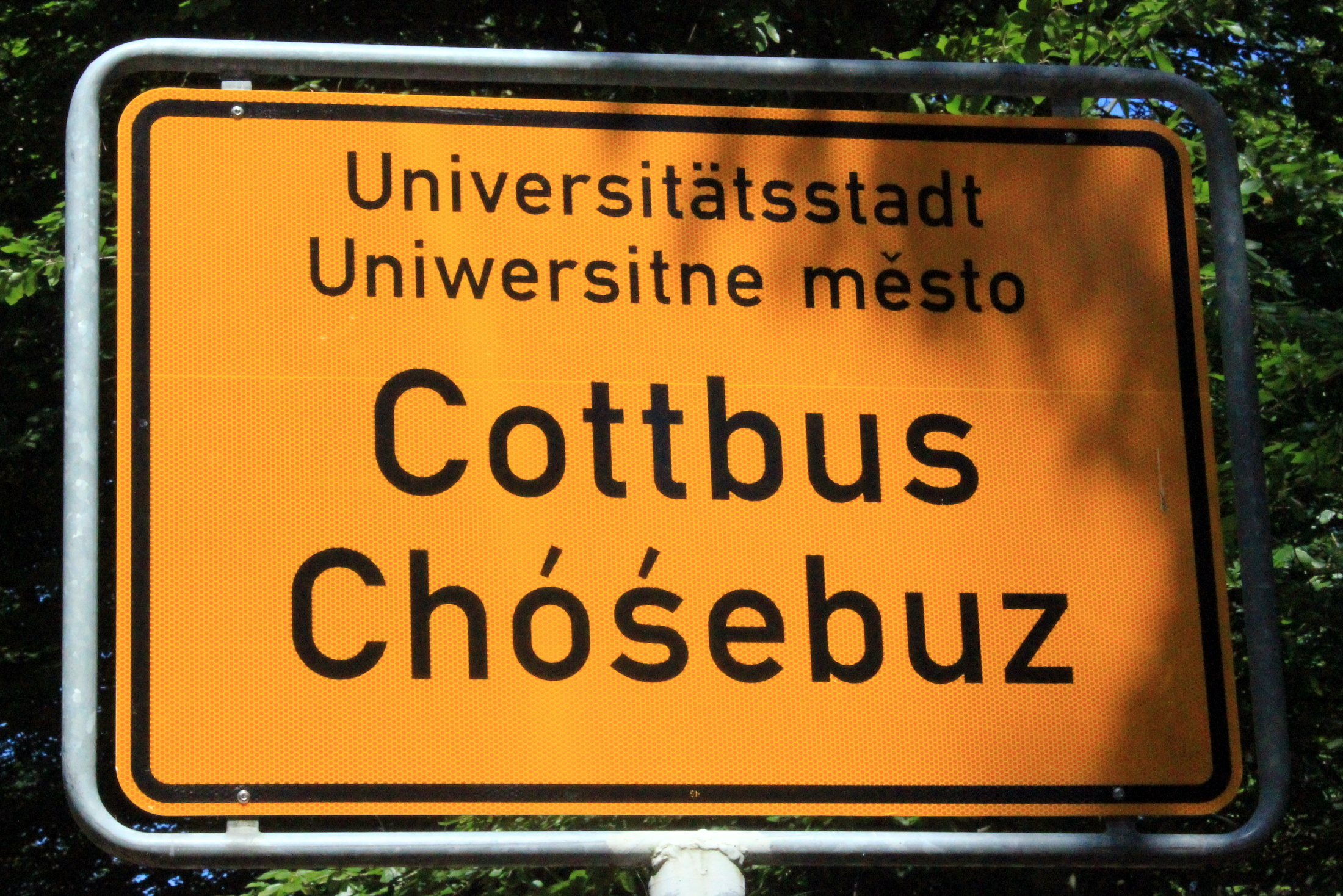 Bilingual German-Sorbian city limit sign of Cottbus/Chóśebuz.